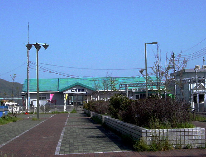 Nigata Sanbashi at Nigata Station on the JR Kure Line in Kure, Hiroshima Prefecture, Japan.